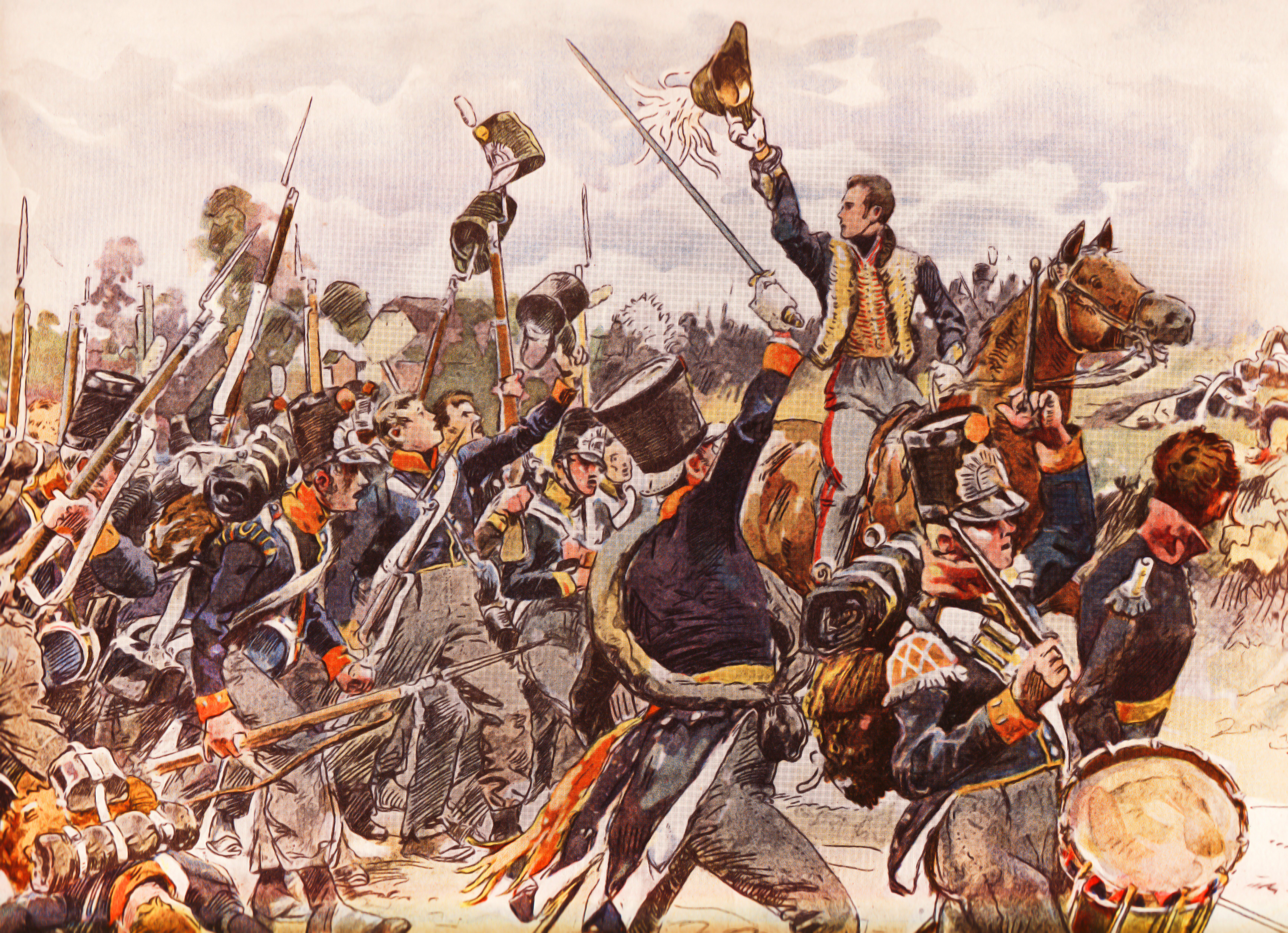 Prins van Oranje